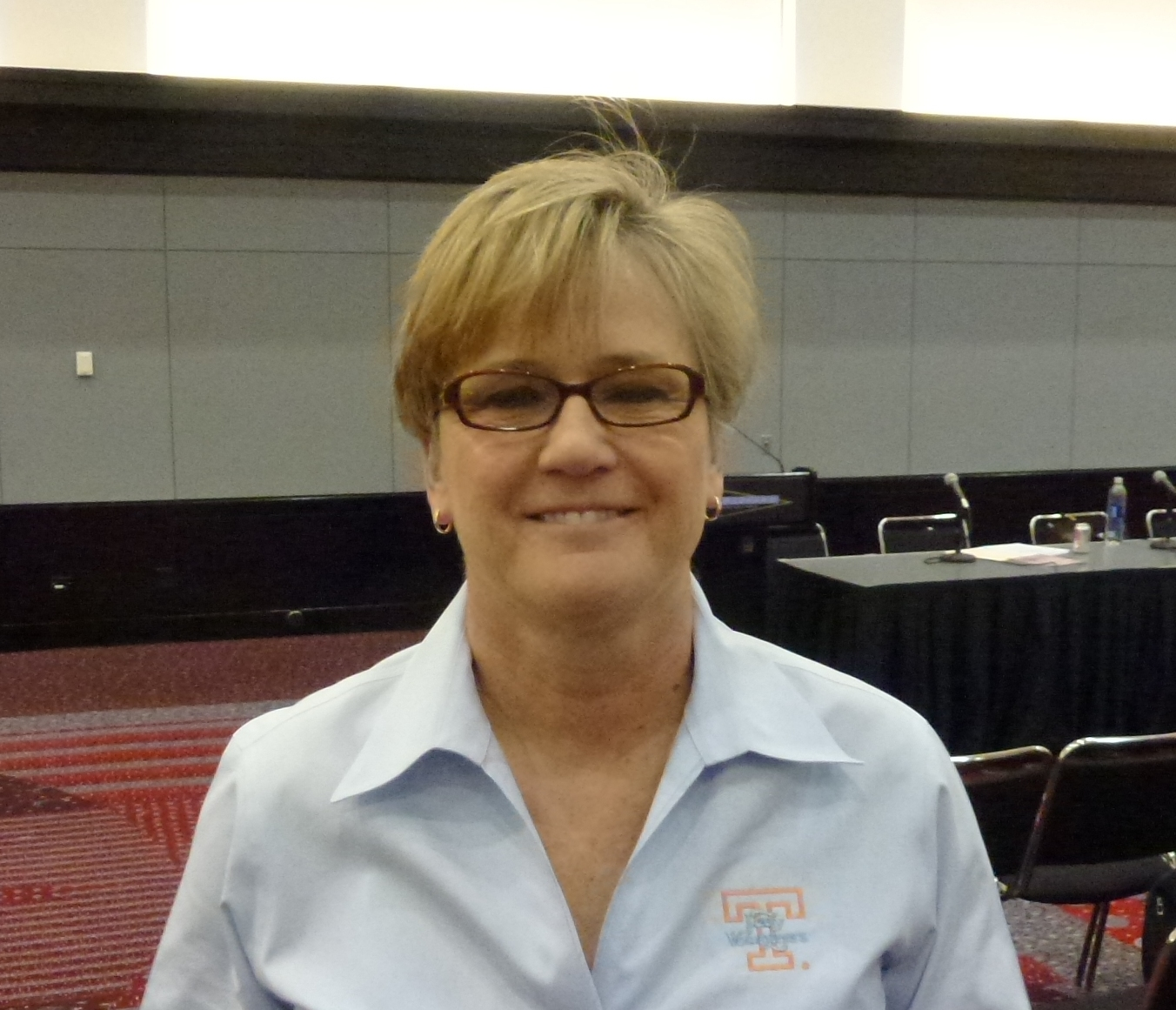 Holly Warlick, associate head coach of the Tennessee women's basketball team. Taken at the 2012 WBCA Convention in Denver Colorado,, where she was moderating a presentation.